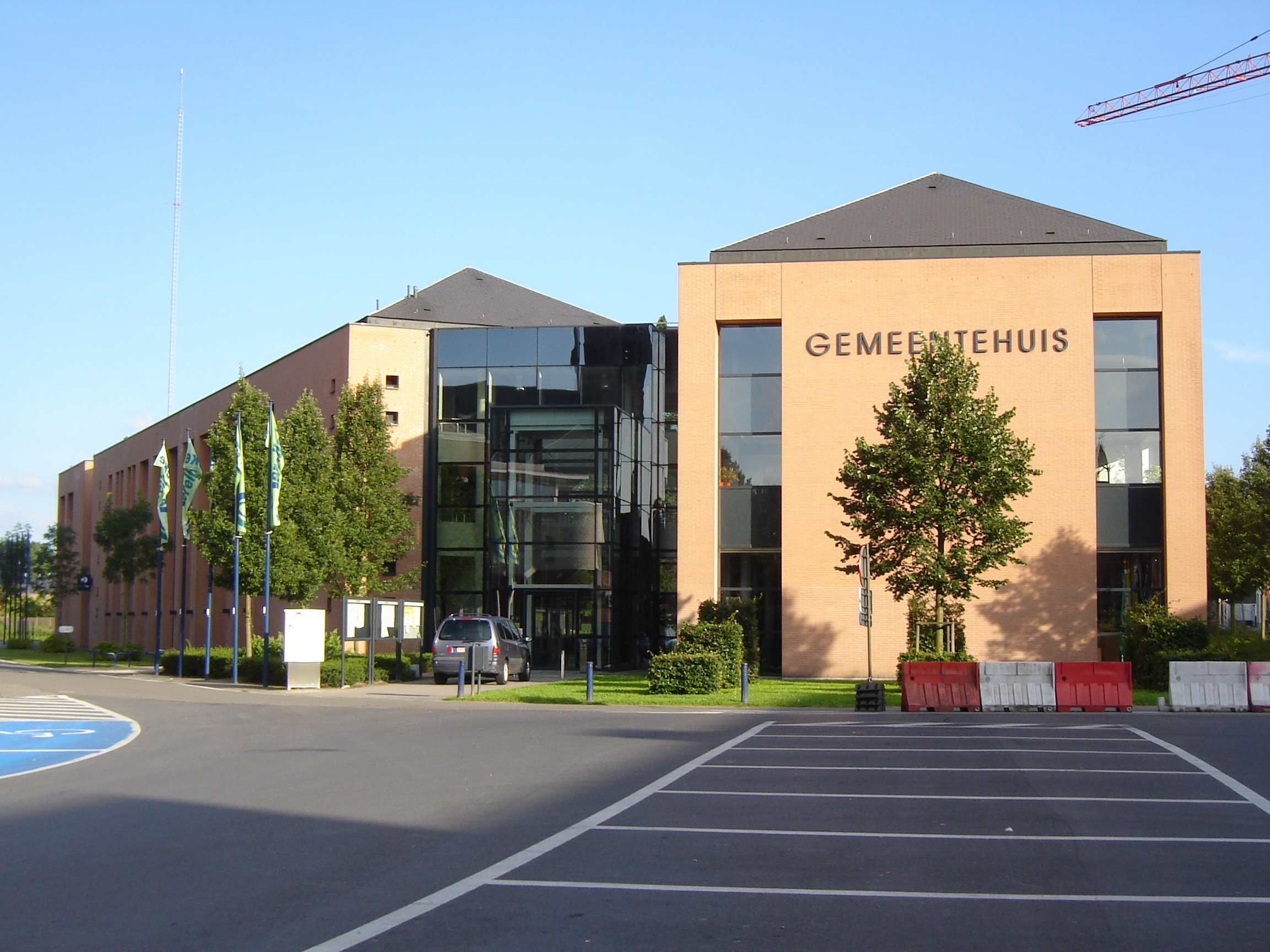 Town hall of Merelbeke, East Flanders, Belgium.